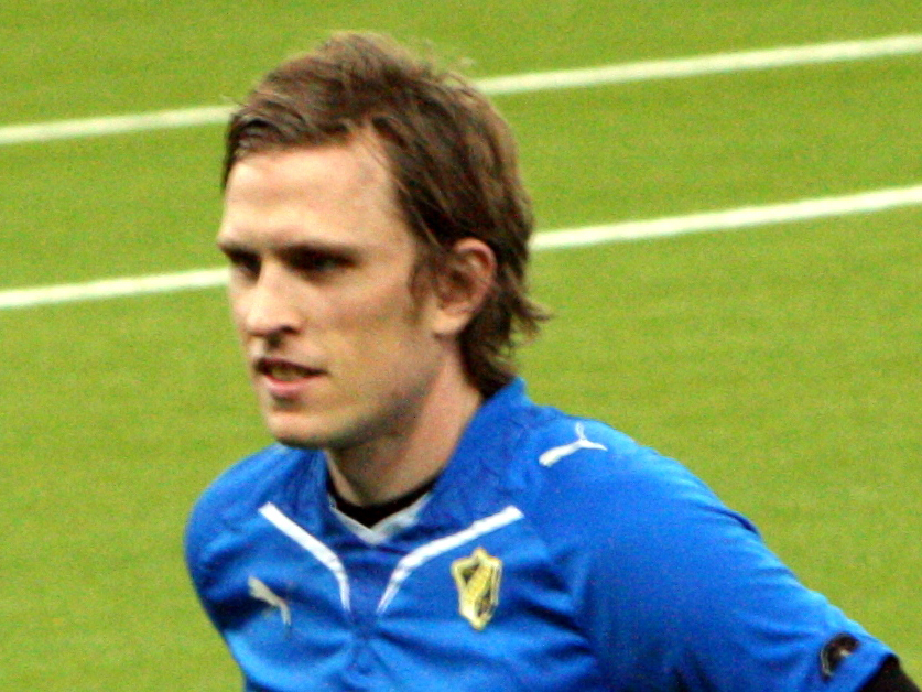 Pontus Segerström, Stabæk player